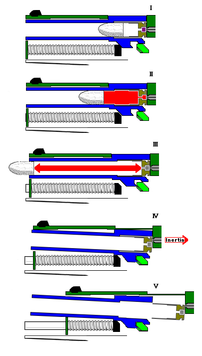 Diagram of the Sig-Sauer Short Recoil Locking System.